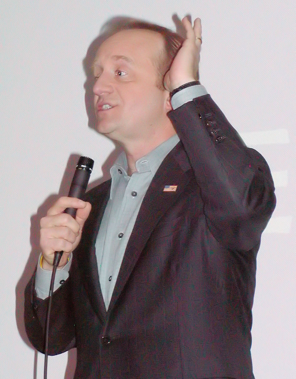 Paul Begala speaking to a group of Al Franken supporters in Saint Paul, Minnesota